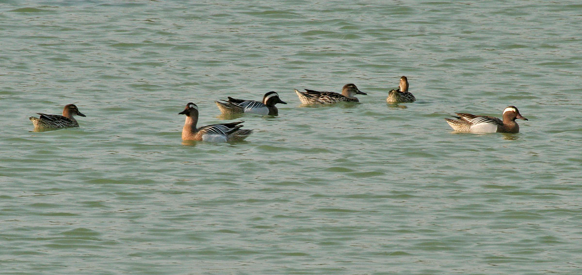 Garganey Anas querquedula at Uppalapadu, Andhra Pradesh, India.